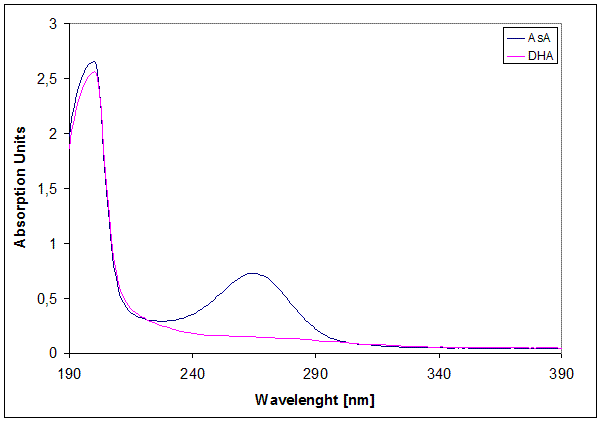 Absorption spectra of ascorbic acid (AsA, blue) and dehydroascorbic acid (DHA, pink)